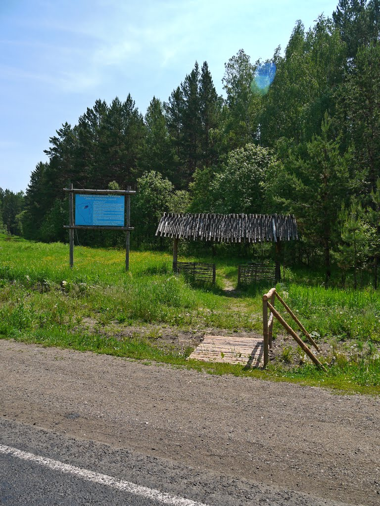 Nature Trail near Upper Chebula (Verkne Chebula), Chebulinsky District, Kemerovo Oblast